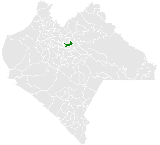 Map of the Municipalty of Chenalhó in the State of Chiapas, México.